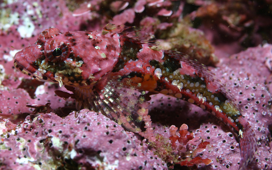 The coralline sculpin Artedius corallinus blends in extremely well with the surrounding pink-colored crustose and articulated coralline algae.